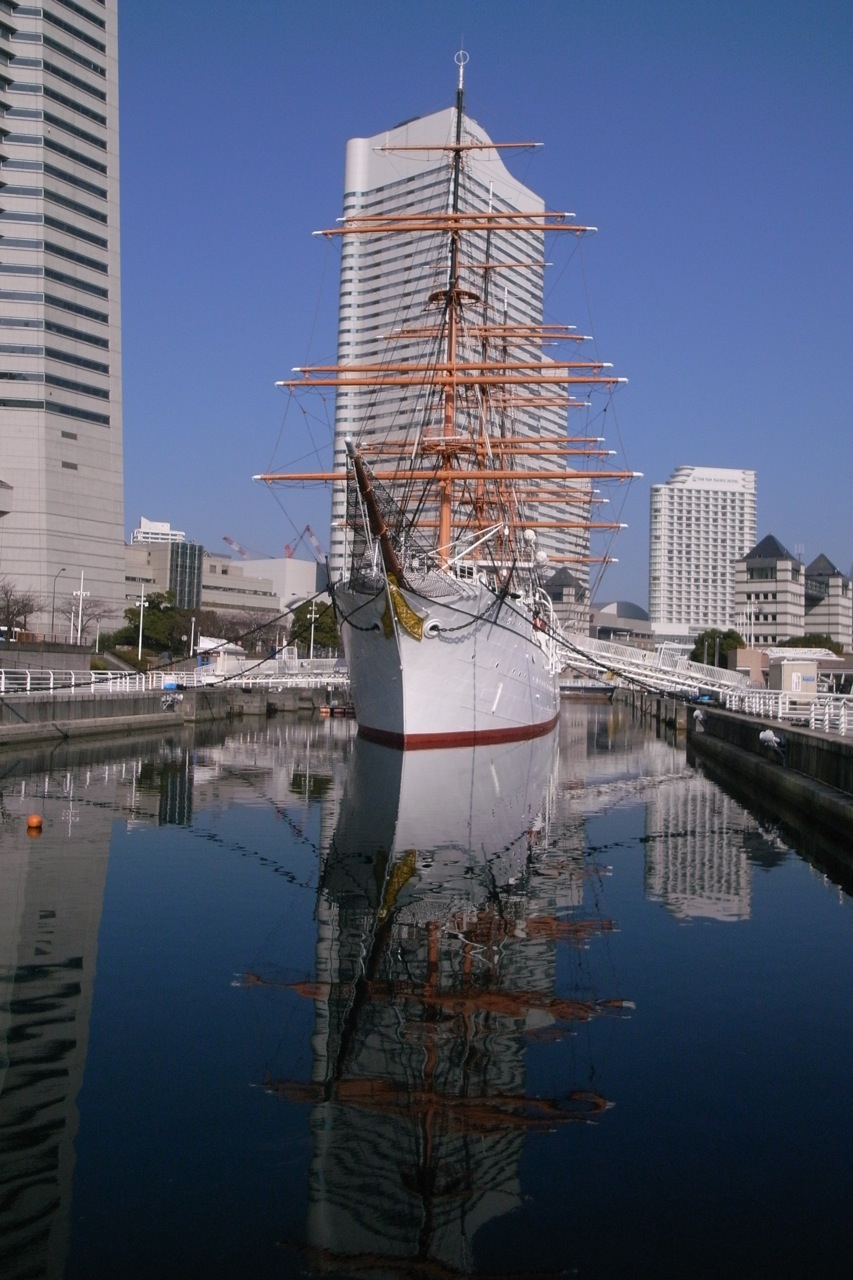 Nippon Maru memorial park in Minatomirai 21, Yokohama, Kanagawa, Japan.